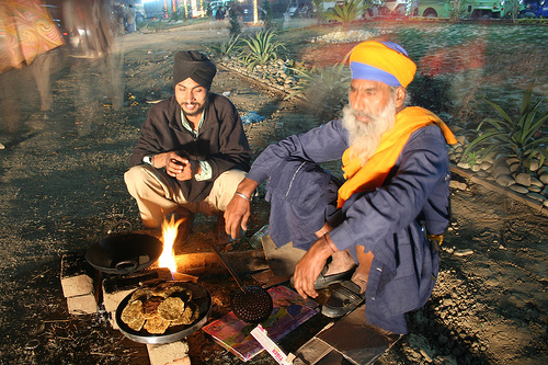 Shot by Rohit Markande at Shaheedi Jor Mela at Sirhind in December 2006.